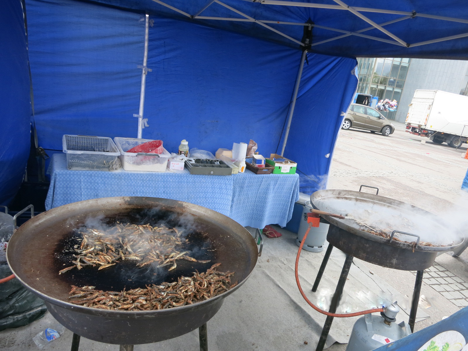 Fish frying in open-air cafe on 1st of May market in Finland. This fish – Coregonus albula is popular and also valuable fast food in Finland.